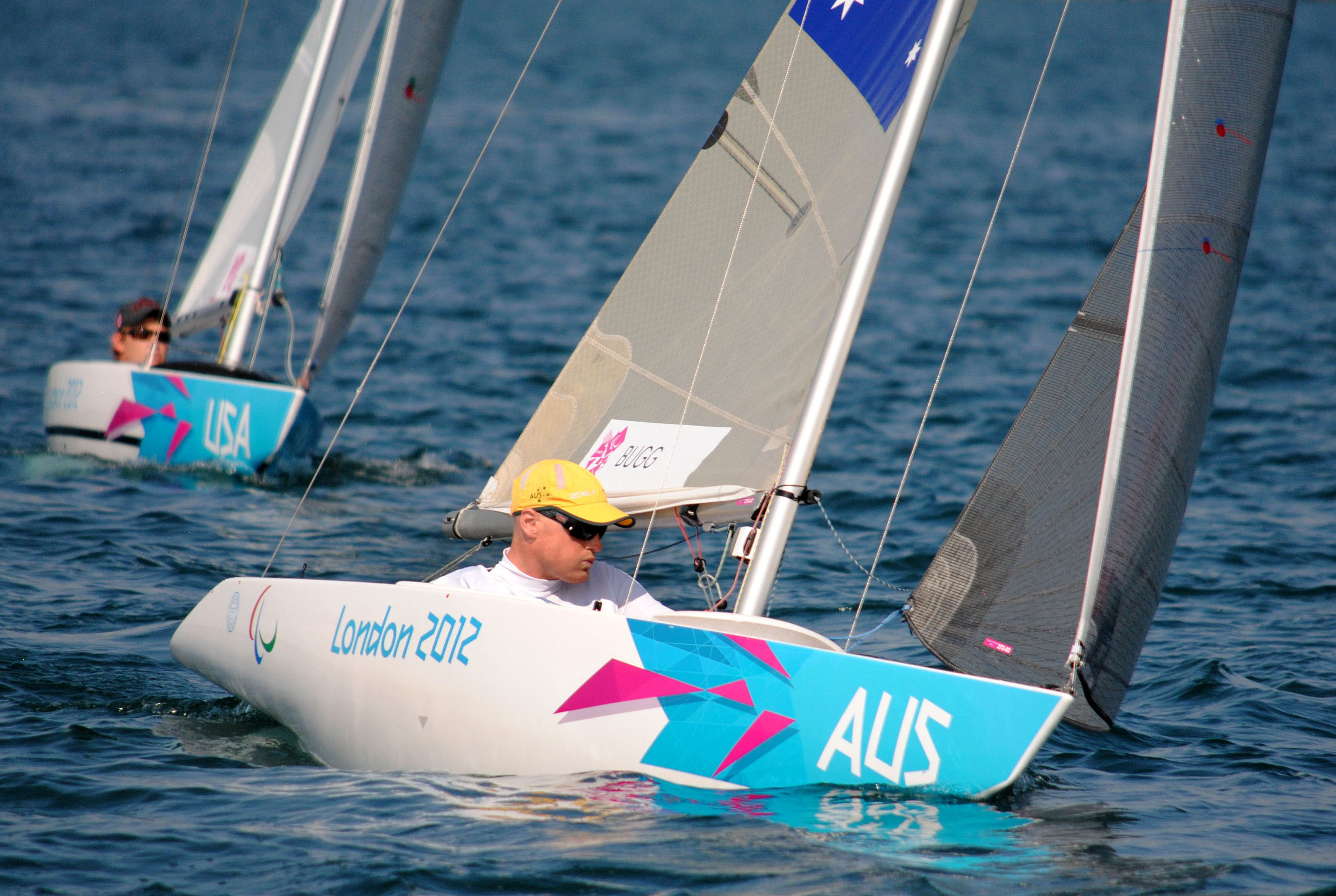 Photograph of Australian Paralympic team member Matthew Bugg at the 2012 Summer Paralympic Games in London